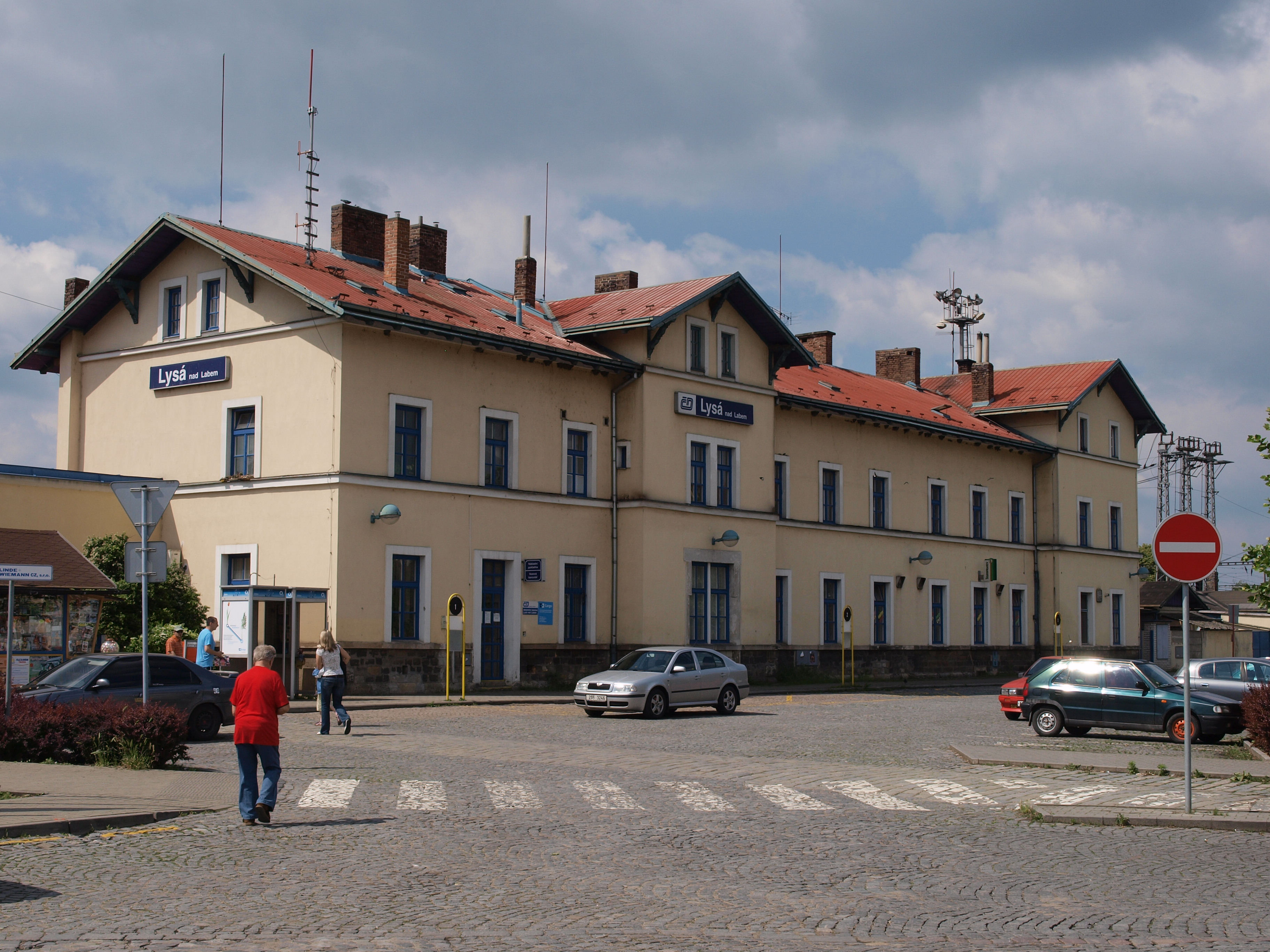 Old building of train station, Lysá nad Labem train station